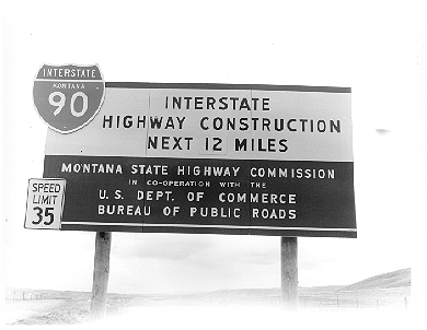 I-90 construction sign located in Montana during the initial construction of the Interstate highway. This is a retouched picture, which means that it has been digitally altered from its original version. Modifications: converted from GIF to PNG. Modifications made by Admrboltz. The original can be found here